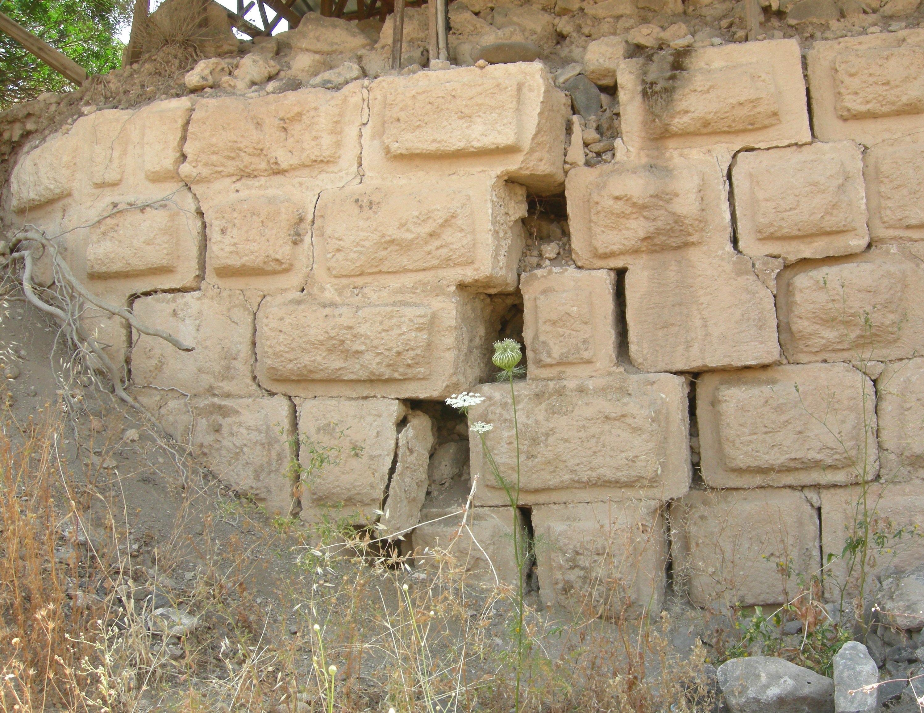 Northeast corner of the Chastellet at the Jacob's Ford Battlefield, Israel.